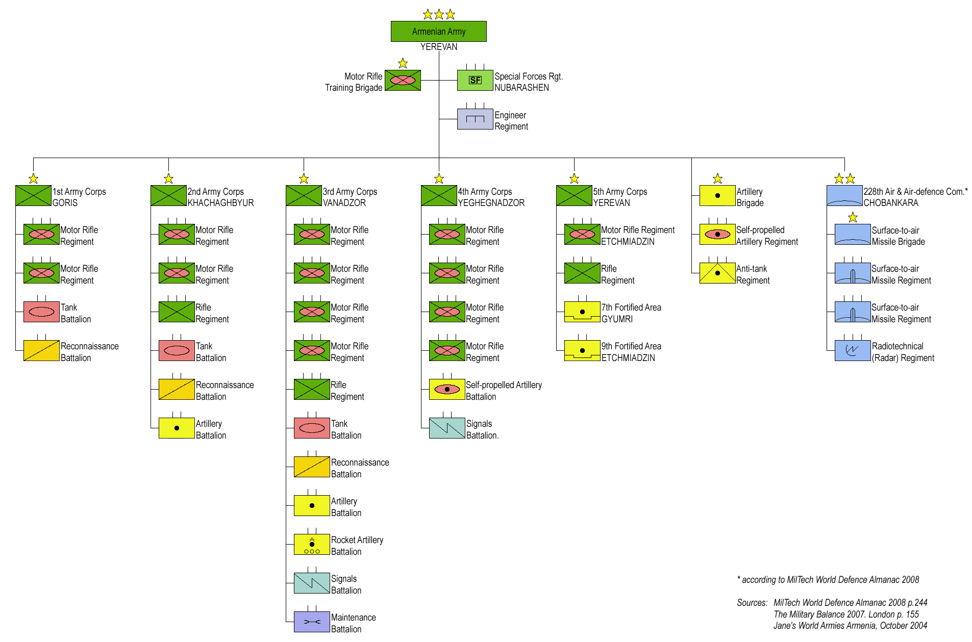 Armenian Army January 2007 Order of Battle